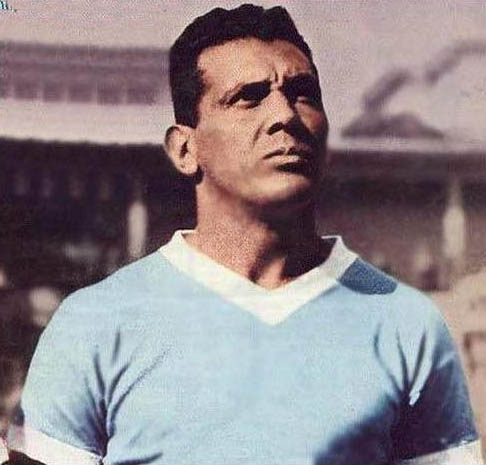 Obdulio Varela playing for the Uruguay national team.